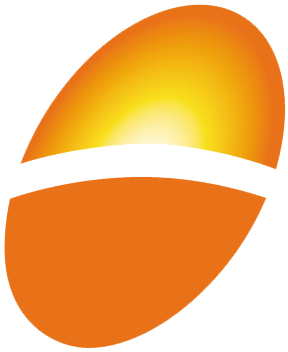 Tama Toshi Monorail Logo